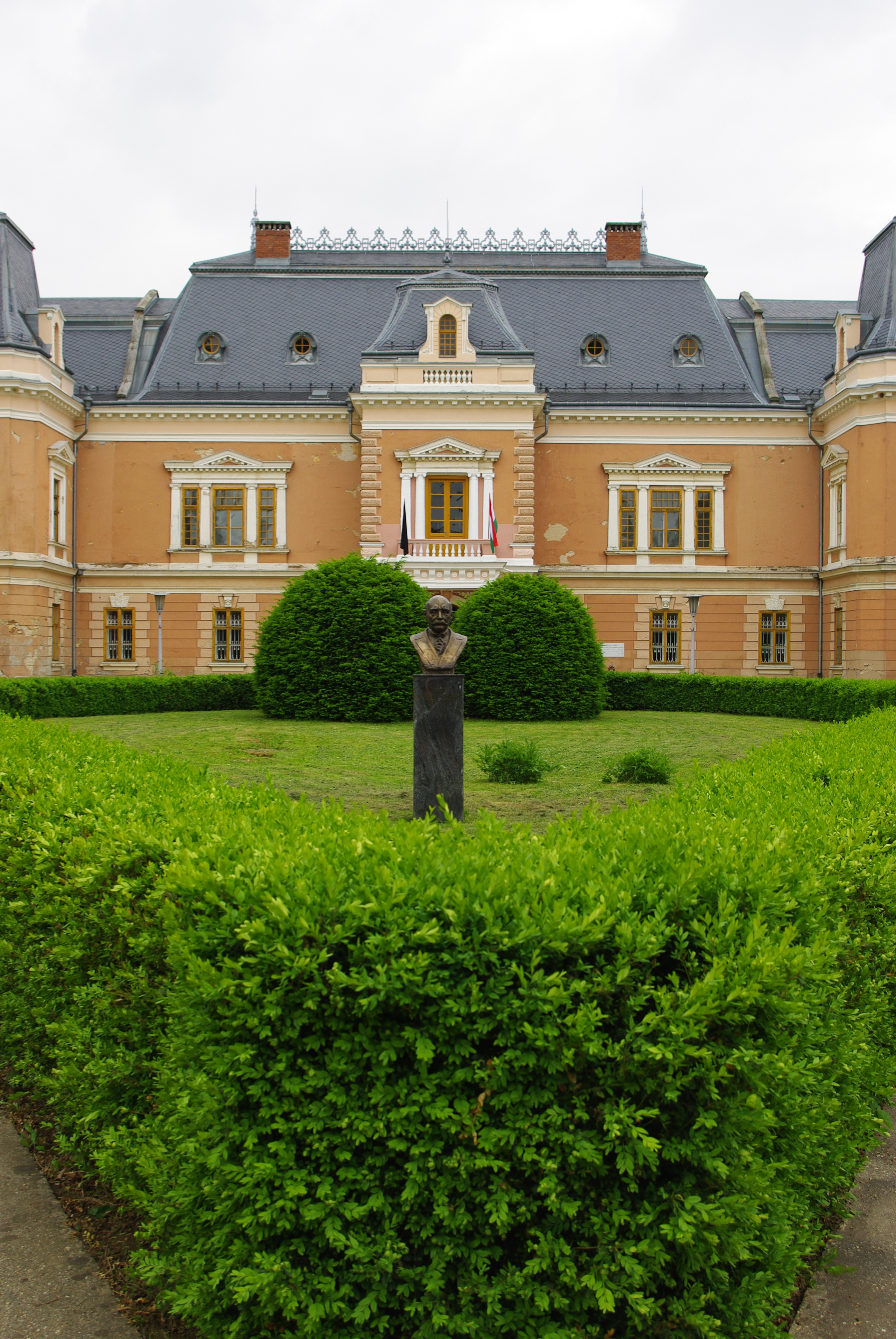 Apponyi Castel in Lengyel, Hungary